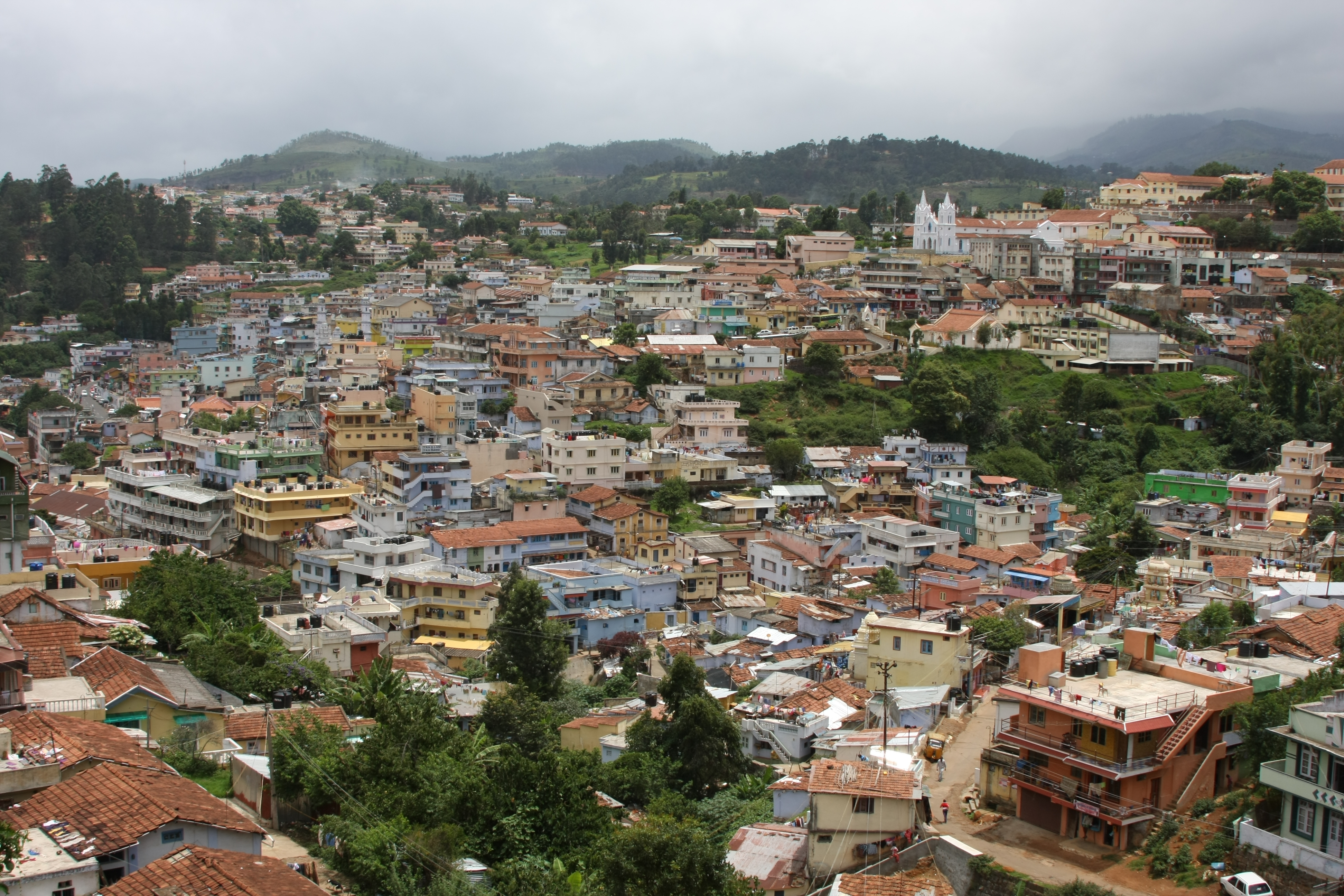 A view of the town of Coonoor from a nearby hillside.